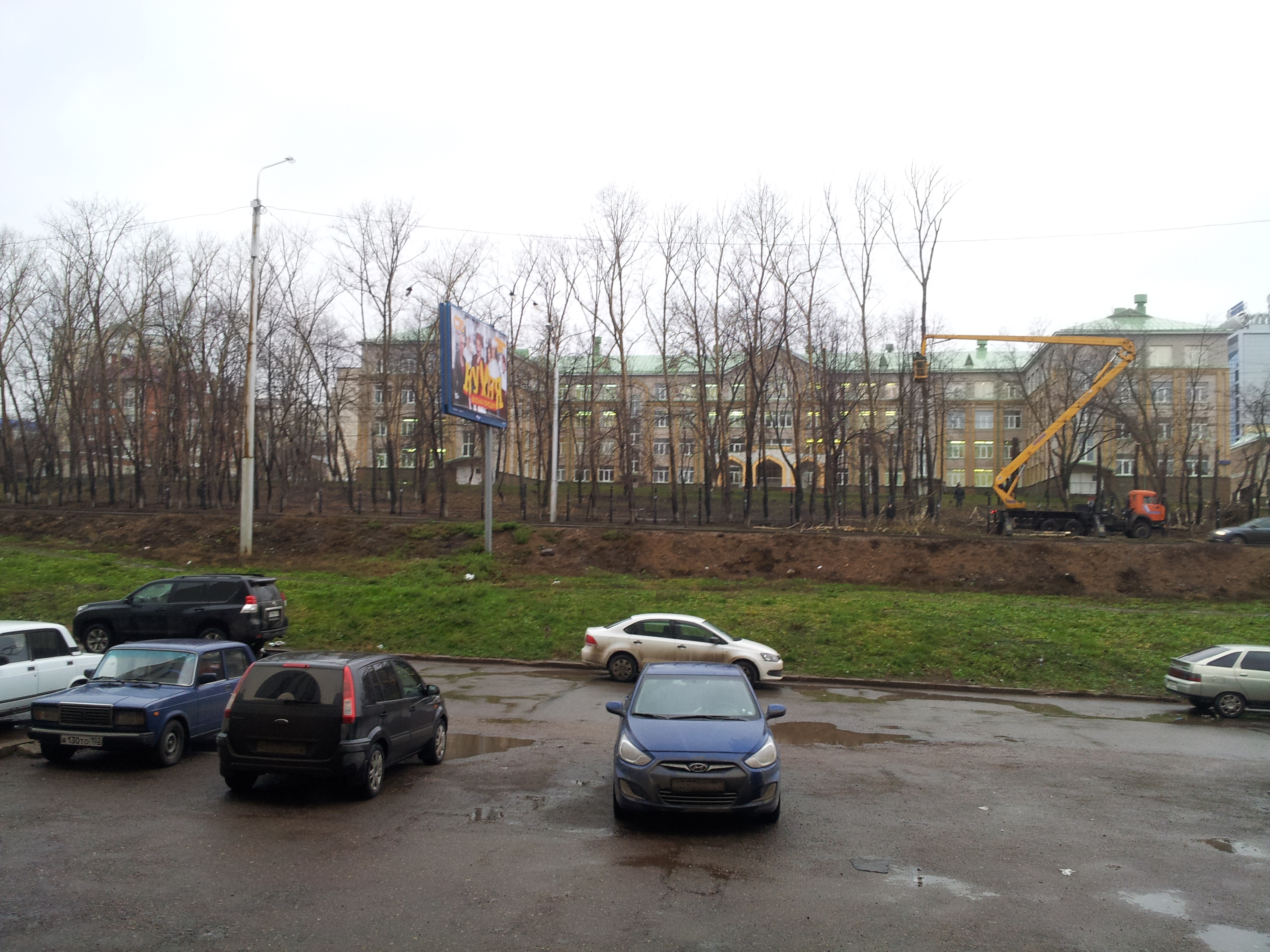 View from Rossiyskaya StreetTürkçe: Rossiyskaya Sokağı'ndan görünüm